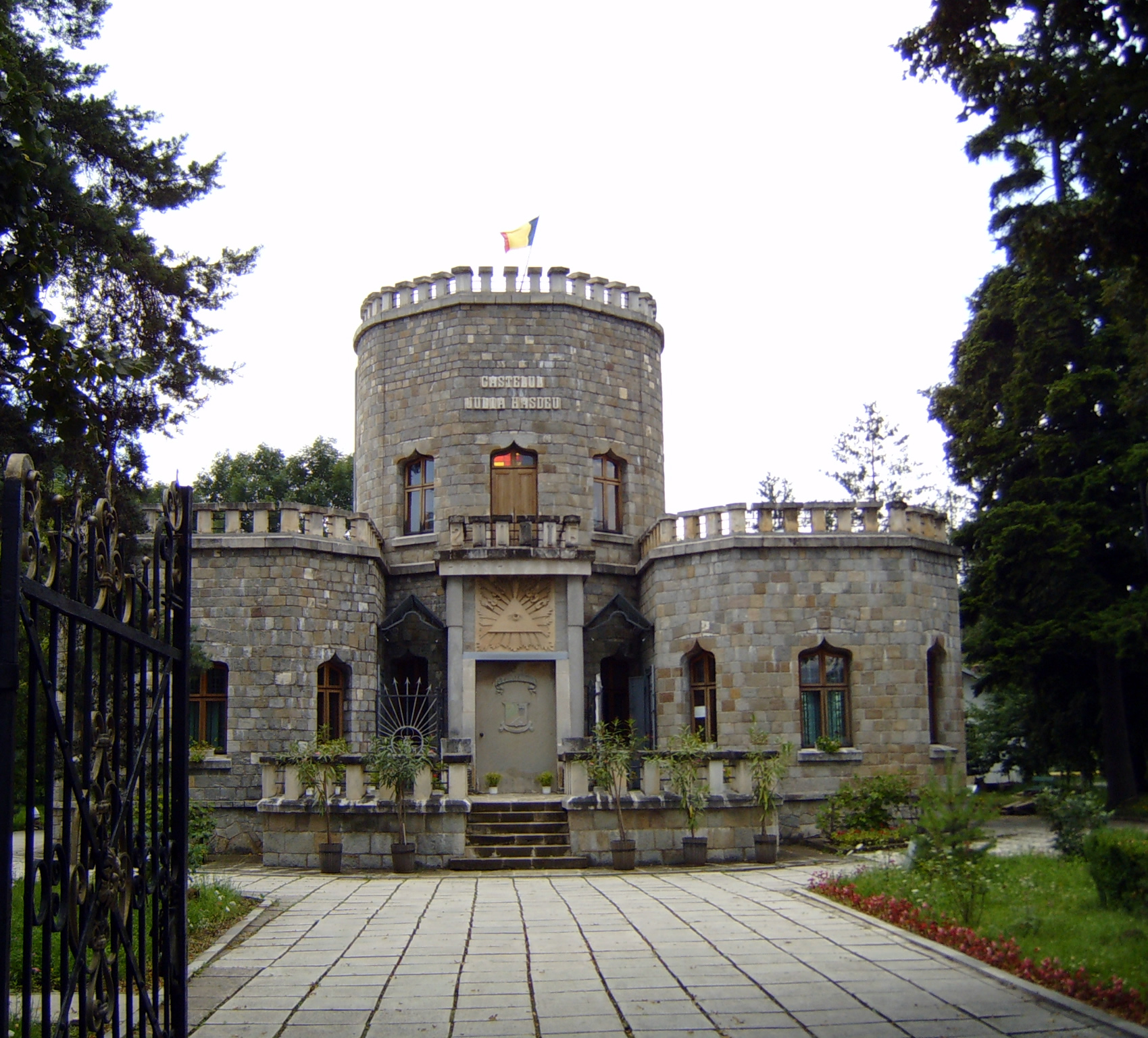 Iulia Hasdeu Palace, Campina